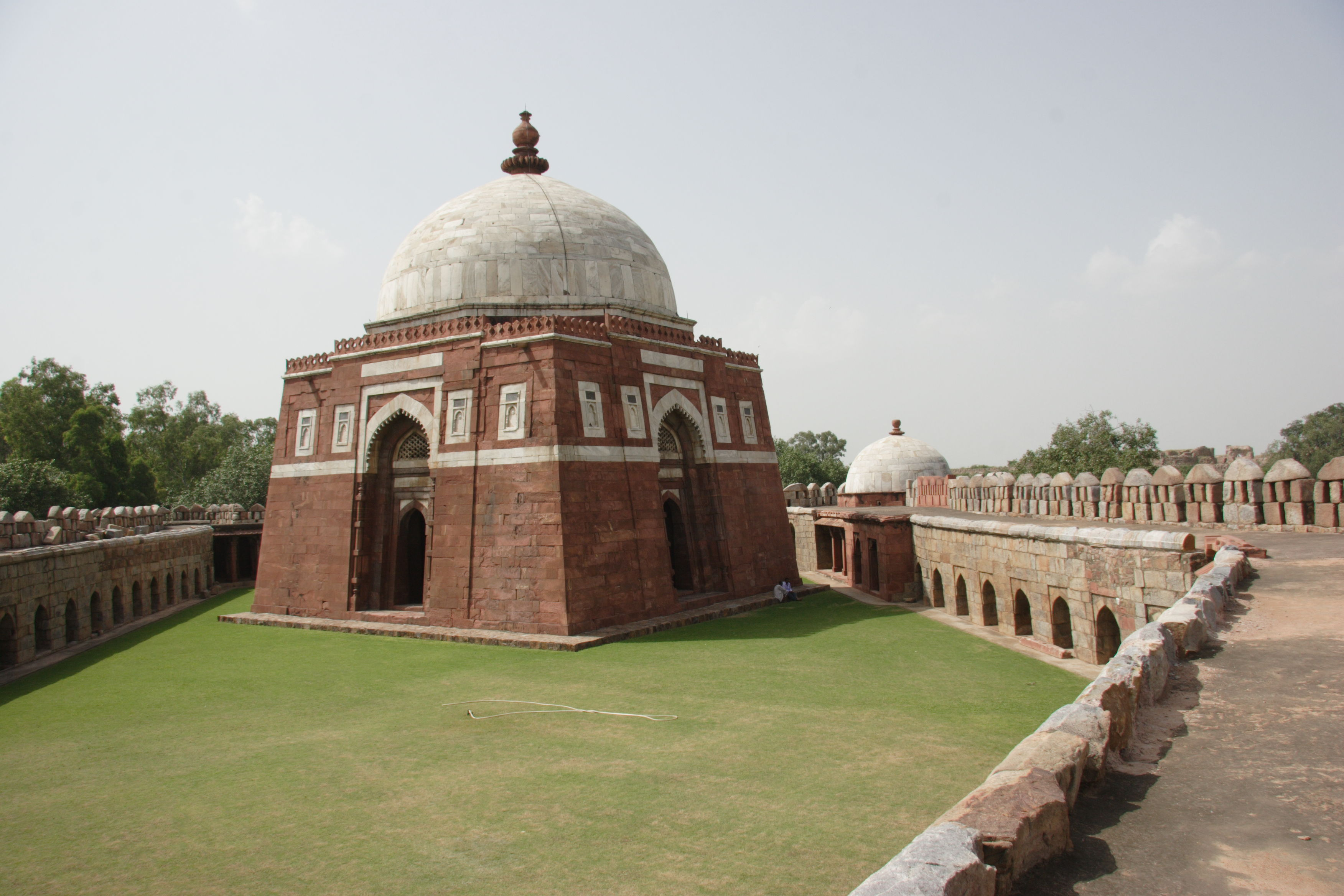 Mausoleum of Ghiyath al-Din Tughluq, the founder of the Tughluq dynasty and the third city of Delhi called Tughluqabad (c) GFDL David Haberlah (Homepage of David Haberlah, )